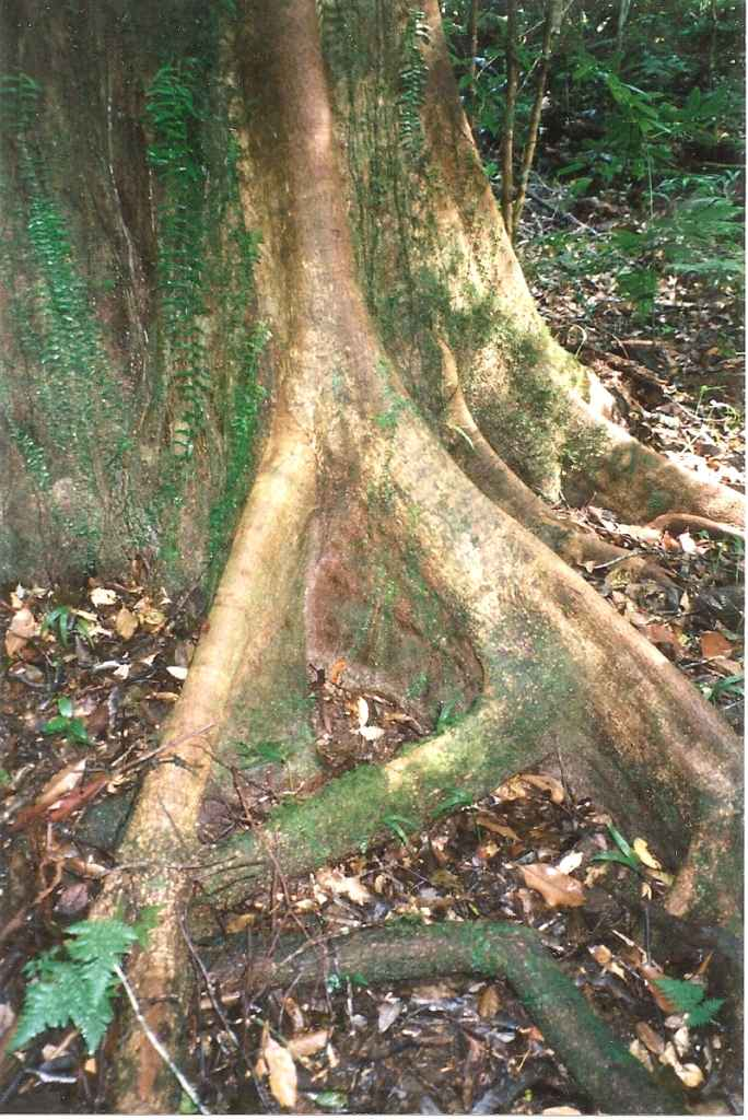 Geissois benthamiana; buttress roots at Wilson River Primative Reserve, west of Port Macquarie, NSW, Australia